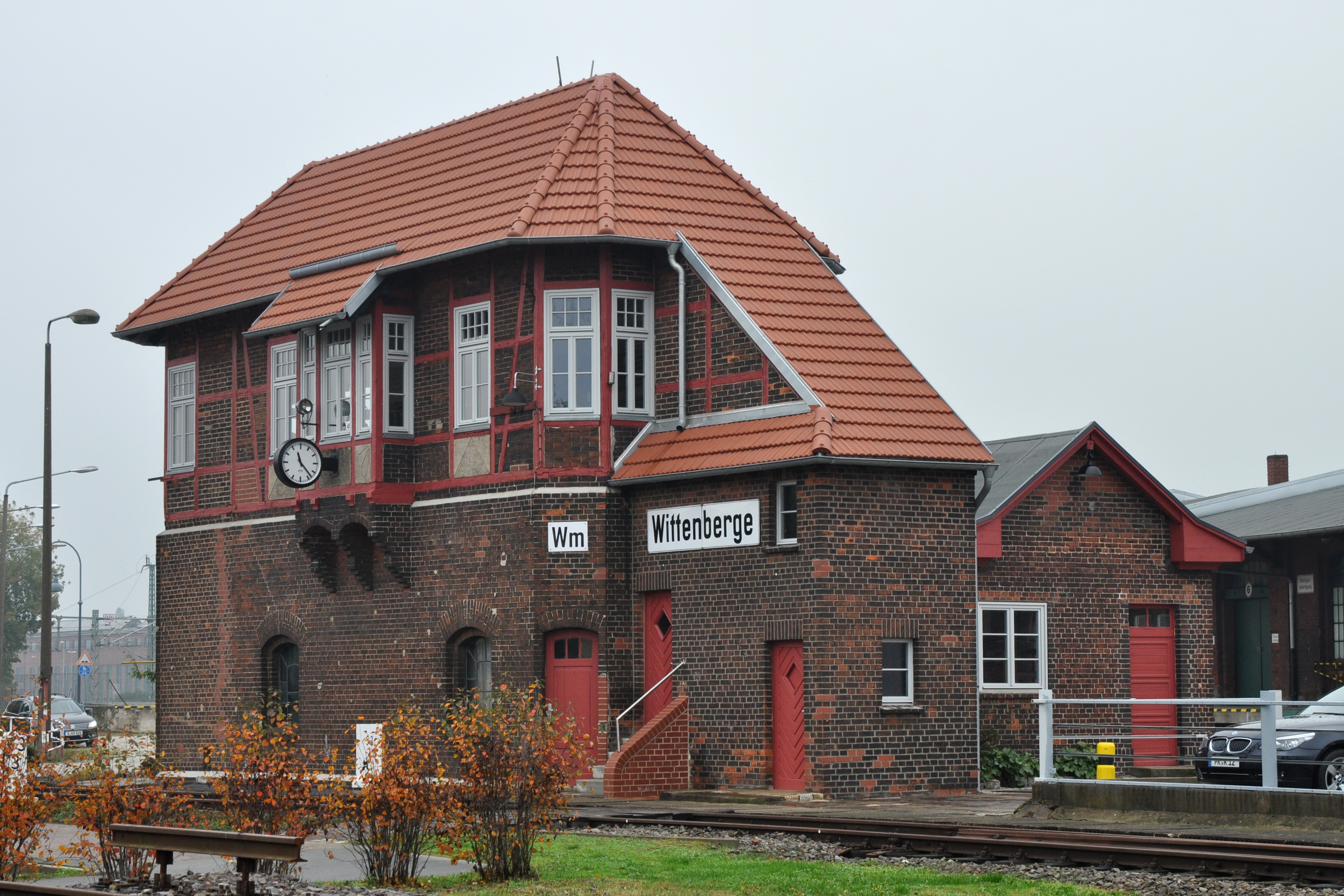 Signal box in Wittenberge train station.